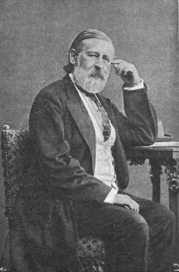 Kornél Ábrányi